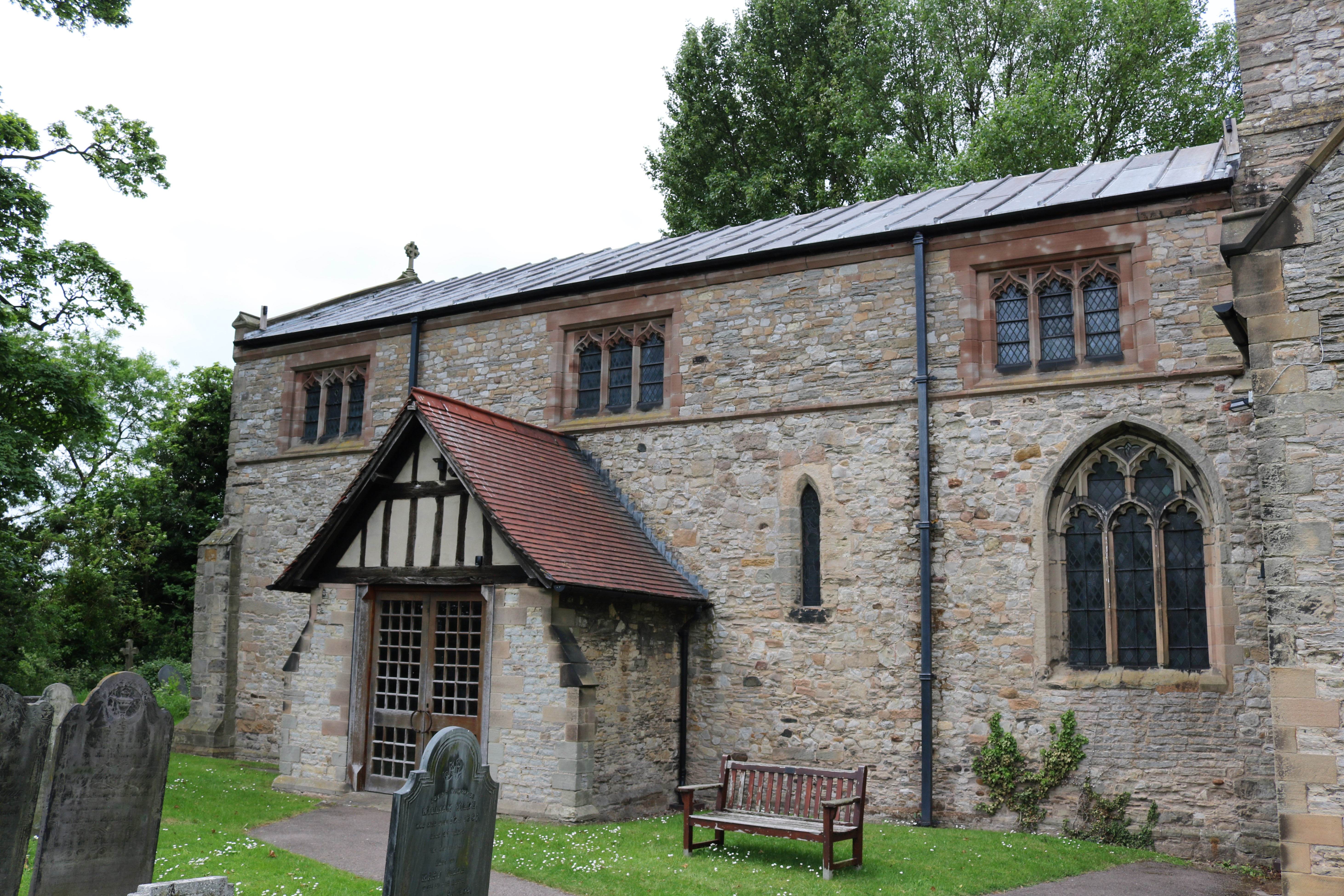 The nave of St James' parish church, Normanton on Soar, Nottinghamshire, seen from the east